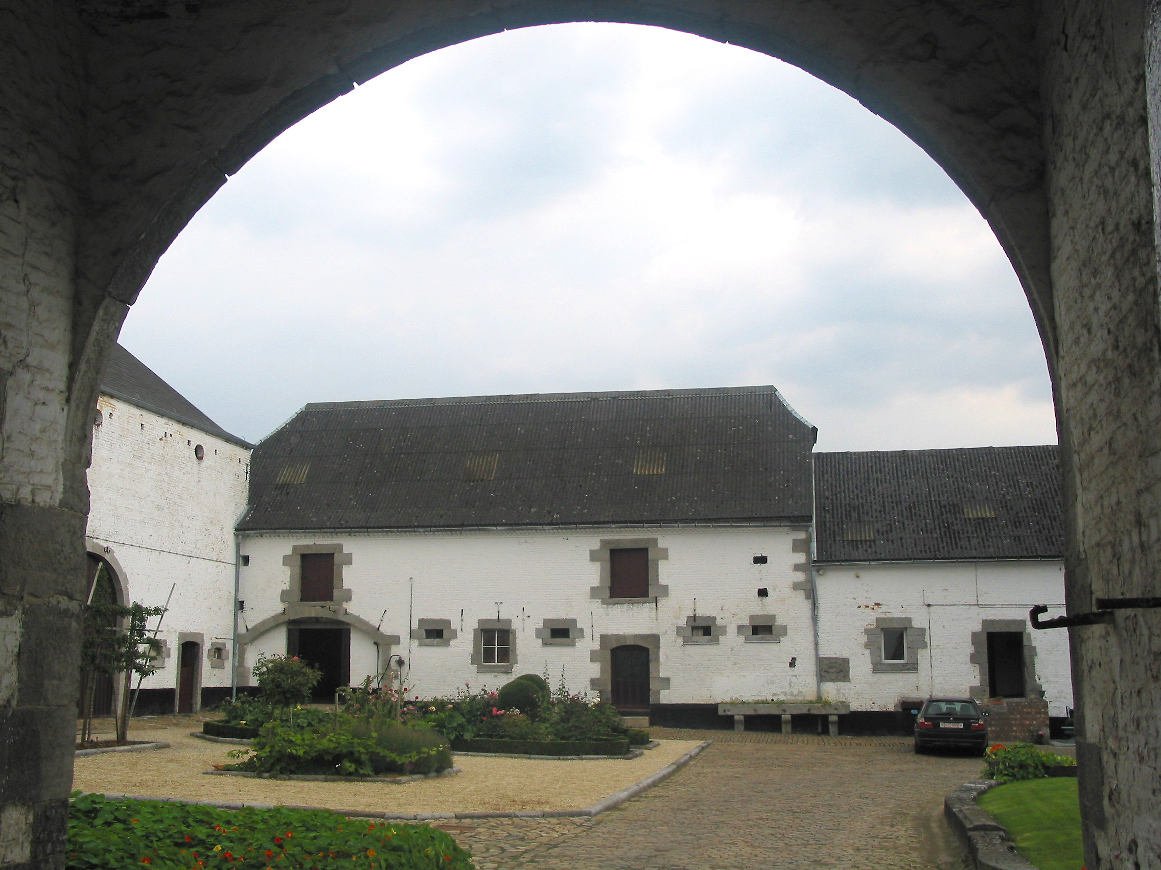 Wasseiges (Belgium), gate and farmyard of Hesbaye.